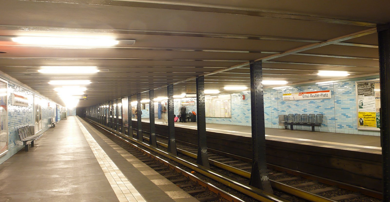 Subway Station E.Reuter Platz